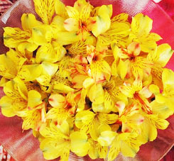 शिवकटाक्ष के फूल